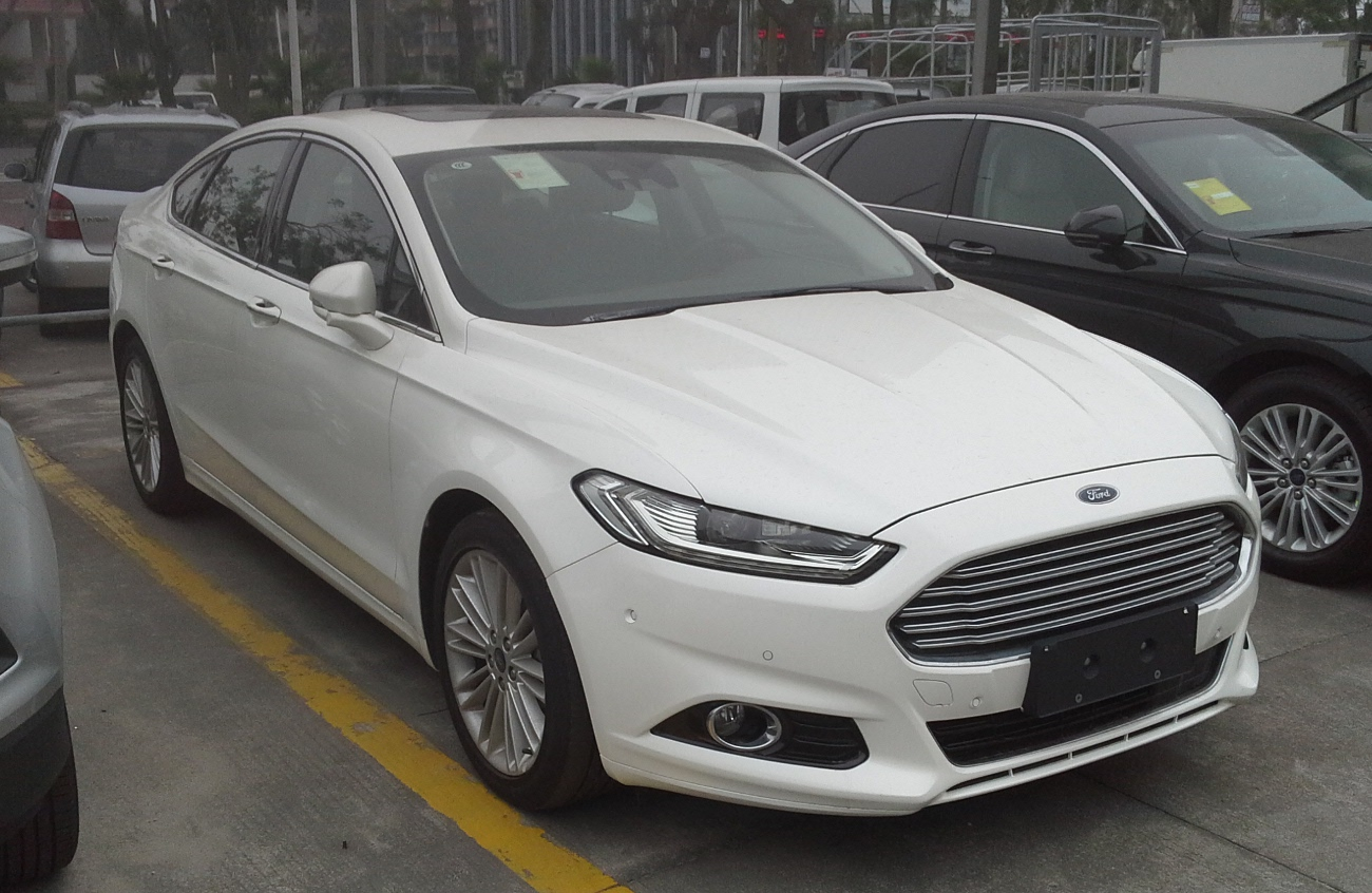 Ford Mondeo V photographed in Zhanjiang, Guangdong province, China.